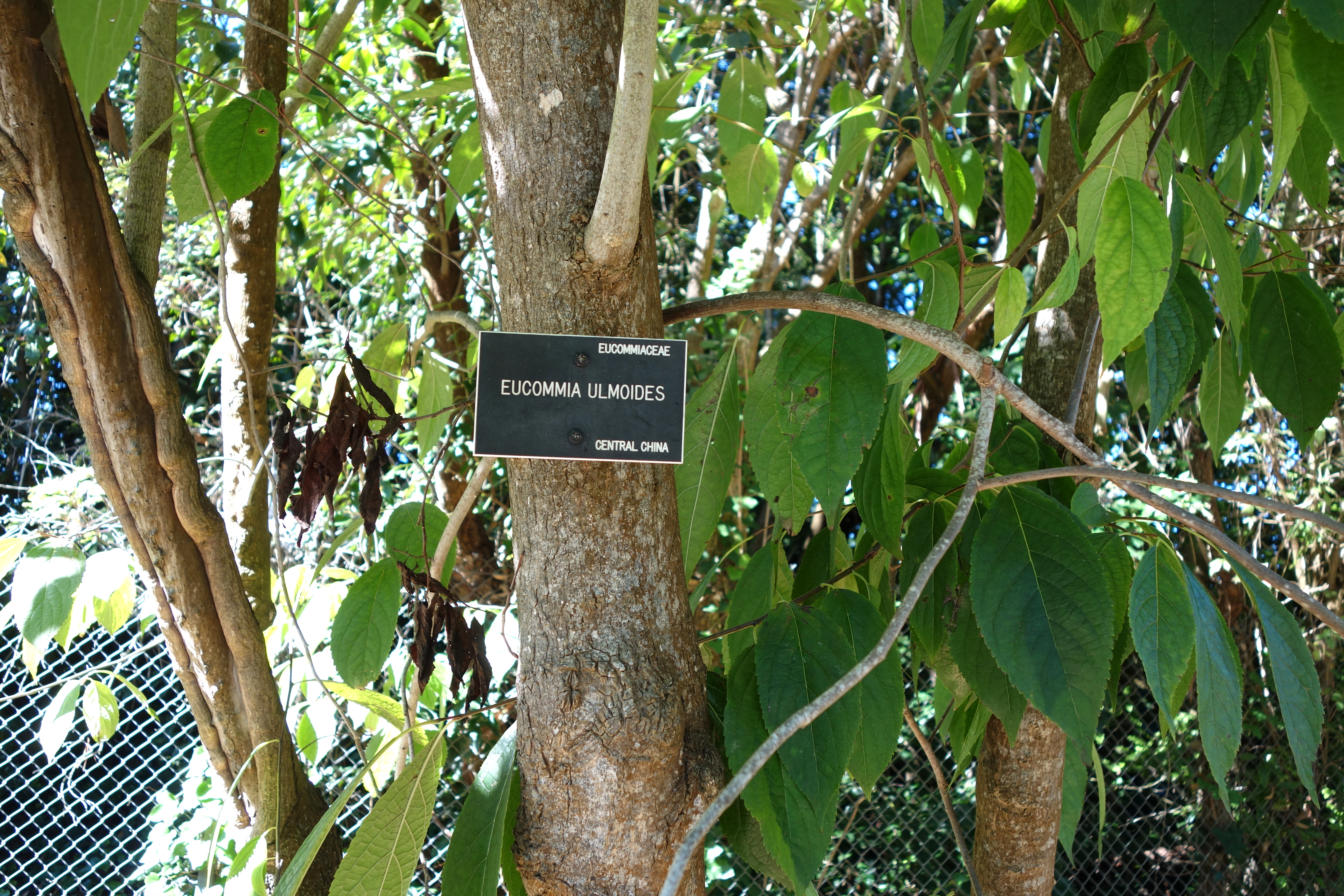 Botanical specimen in the San Francisco Botanical Garden, San Francisco, California, USA.